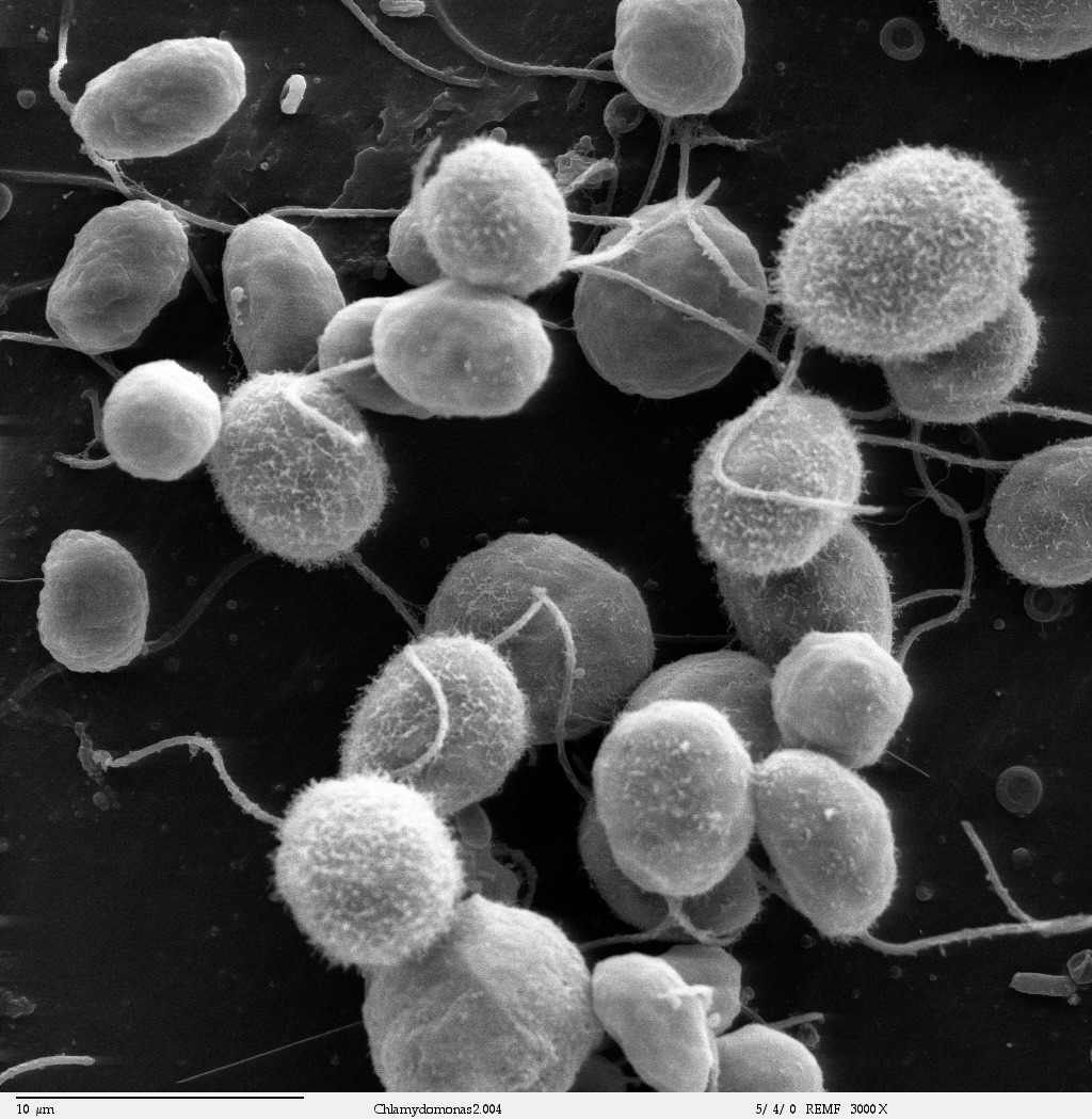 Scanning electron microscope image, showing an example of green algae (Chlorophyta). Chlamydomanas reinhardtii is a unicellular flagellate used as a model system in molecular genetics work and flagellar motility studies.